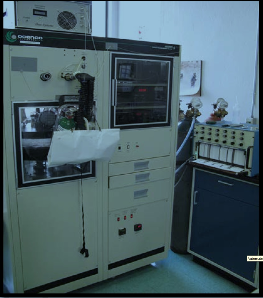 Stand for approval testing of respirators (certification of self-contained self-rescuers).